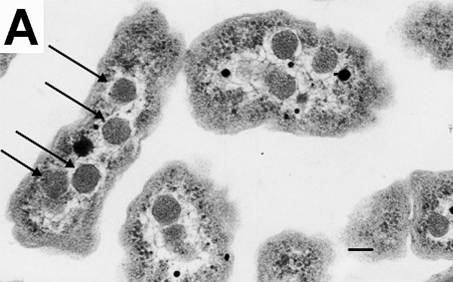 A thin-section electron micrograph of H. neapolitanus cells with carboxysomes inside. In one of the cells shown, arrows highlight the visible carboxysomes. Scale bars indicate 100 nm.